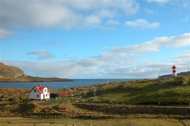 Gálgin, south of Øravík